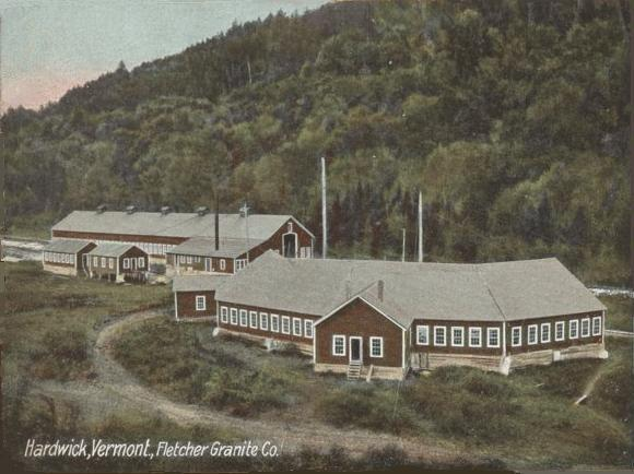 E. R. Fletcher Granite Company, Hardwick, Vermont; from a c. 1907 postcard published by the Hugh C. Leighton Company, Portland, Maine.